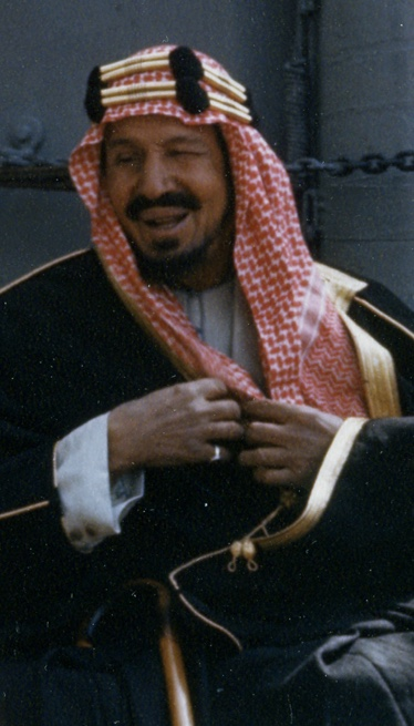 King Ibn Saud, of Saudi Arabia, on board USS Quincy (CA-71) in the Great Bitter Lake, Egypt, on 14 February 1945. . SOURCE